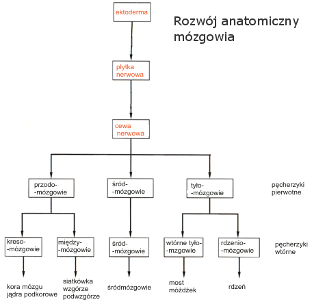 Development of brain